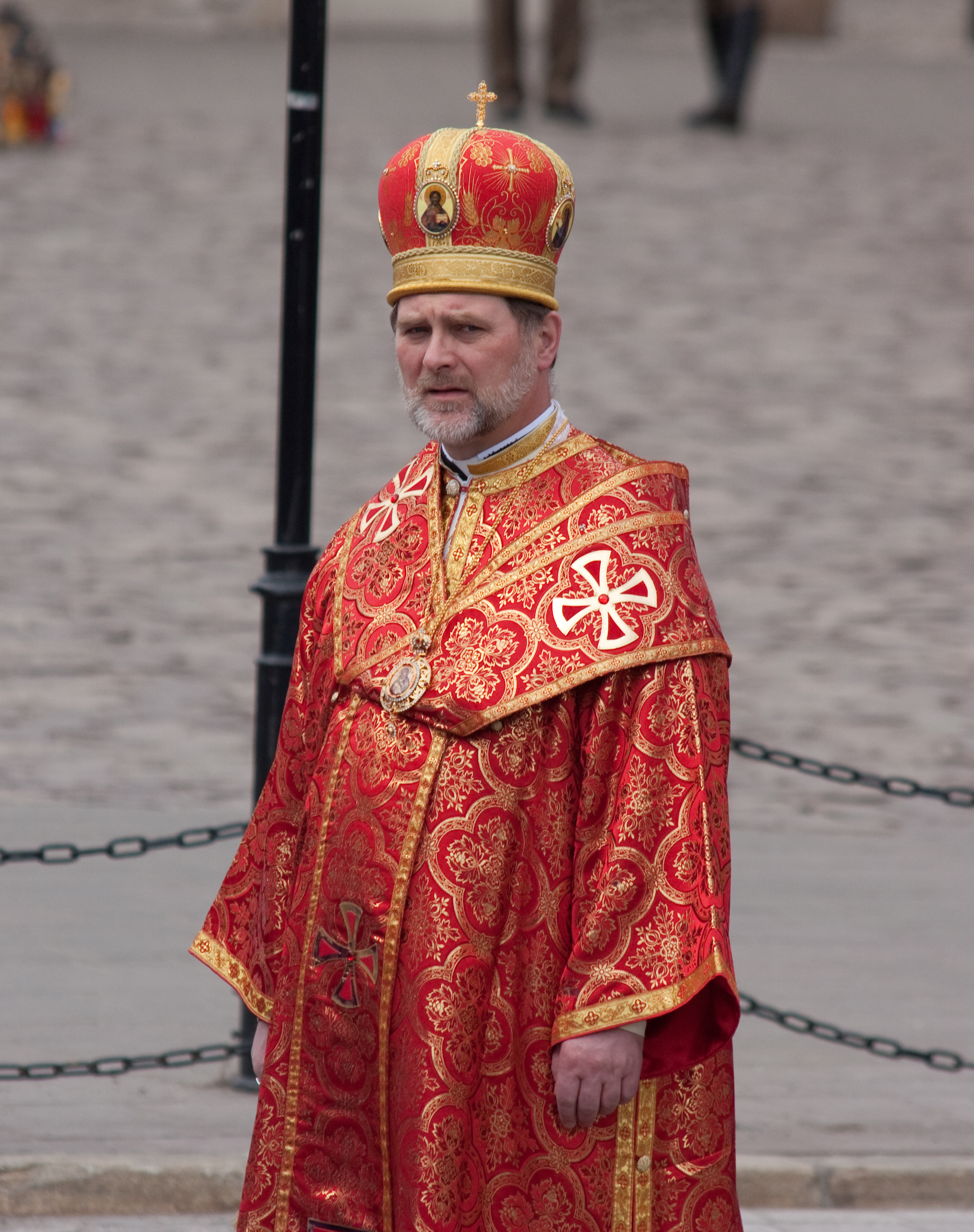 Włodzimierz Juszczak, Bishop Ordinary of the Wrocław-Gdańsk Eparchy of the Ukrainian Greek Catholic Church (in the centre) and two Roman Catholic bishops at the funeral of Lech Kaczyński and Maria Kaczyńska, Kraków 2010